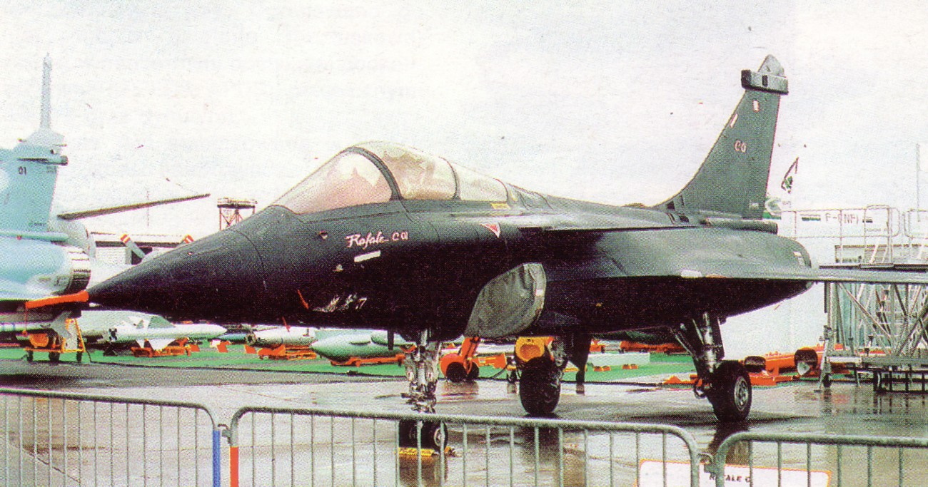 Dassault Rafale